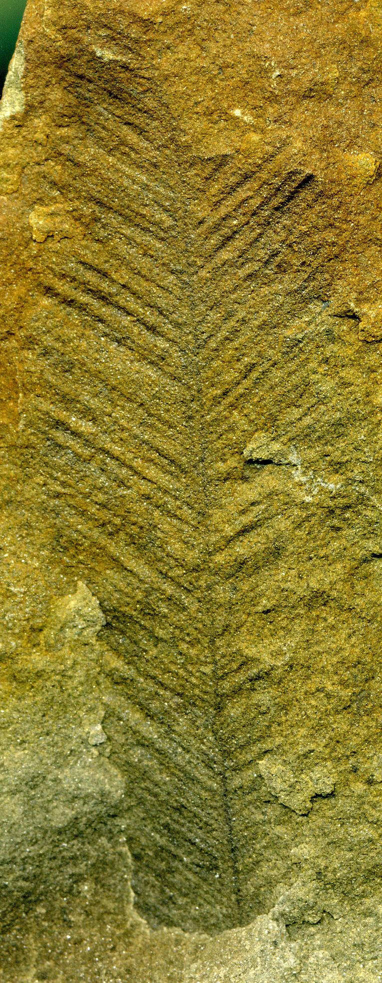 Shown is a soft-bodied fossil that was first described & named in the 1850s, but is still considered a problematicum in the modern literature. This is a soft-bodied frond called Plumalina plumaria Hall, 1858. Workers usually assign this organism to the hydrozoans (Phylum Cnidaria, Class Hydrozoa) or the gorgonarians (Phylum Cnidaria, Class Anthozoa, Order Gorgonaria), but it’s probably safest to refer to it as “Incertae Sedis” (“uncertain placement”). Locality: railroad cut on southern side of railroad adjacent to Rt. 26, southeastern side of Almond Lake, just northwest of Hornell, western Steuben County, western New York State, USA.